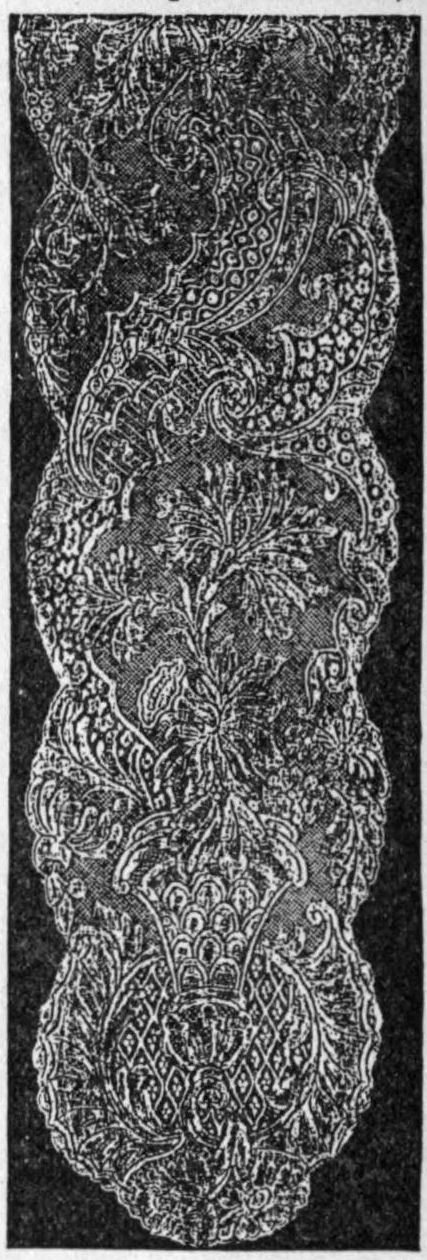 Fig. 45.--Lappet of delicate Pillow-made Lace, Valenciennes, about 1750. The peculiarity of Valenciennes lace is the filmy cambric-like texture and the absence of any cordonnet to define the separate parts of the ornament such as is used in needlepoint lace of Alençon, and in pillow Mechlin and Brussels lace. Illustration from 1911 Encyclopædia Britannica, article Lace.